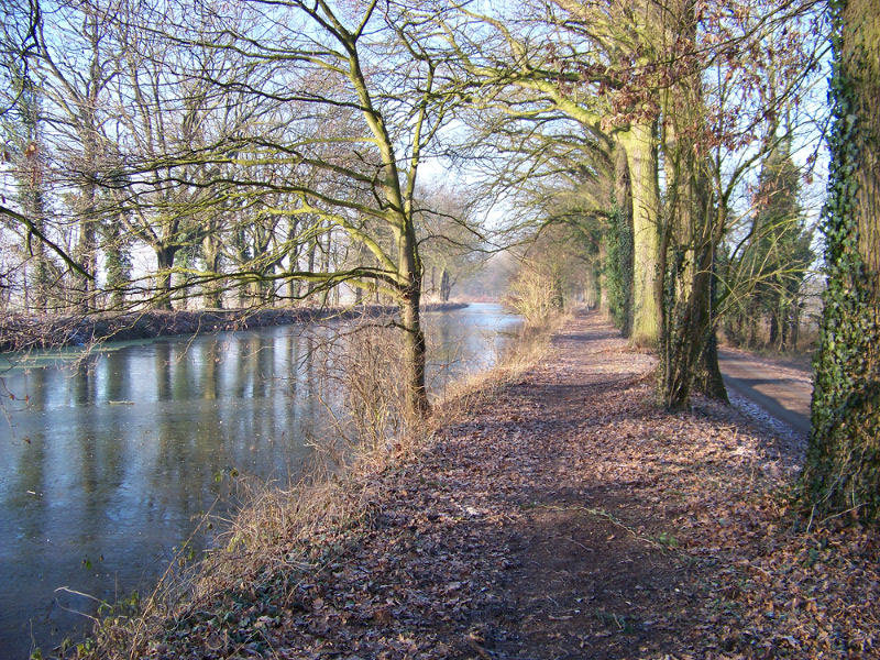 Part of the canal called "Zuid-Willemsvaart" that was bypassed around 1930, situated between the towns of "Beek" and "Bocholt" in Belgium. The canal branch has remained in its ±1850 state.